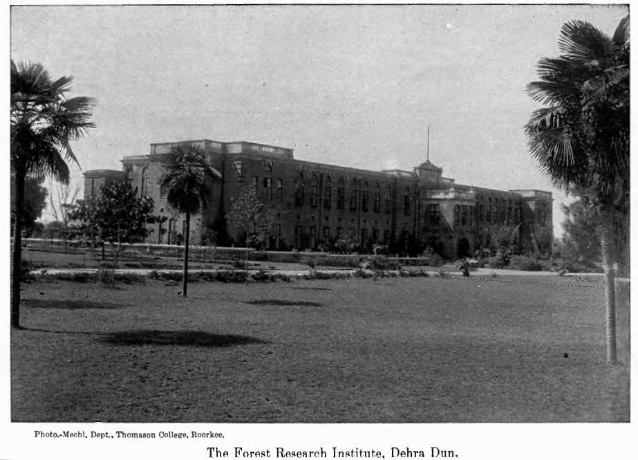 Forest Research Institute